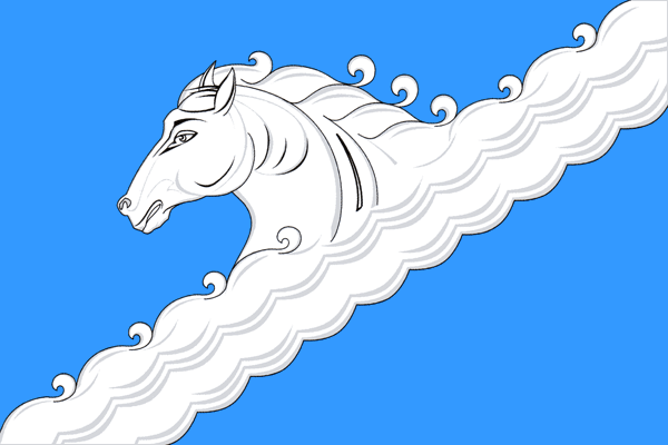 Flag of Belorechensky rayon, Krasnodar Territory, Russia